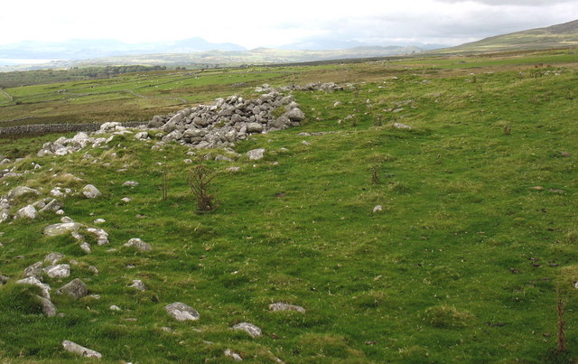 Another view of the entrance gate into the Pen y Dinas hillfort 531396